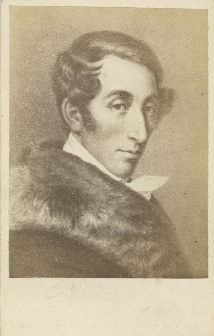 Artist: E. H. Schroeder Date/place: Unknown date/Berlin Subject: Carl Maria von Weber Medium: Photographic reproduction of a painting Notes: German composer, conductor and pianist. Born in Eutin 18.11 1786 - dead in London 05.06. 1826 Original belongs to the Archives at [#//bergenbibliotek.no/digitale-samlinger” Bergen Public Library]